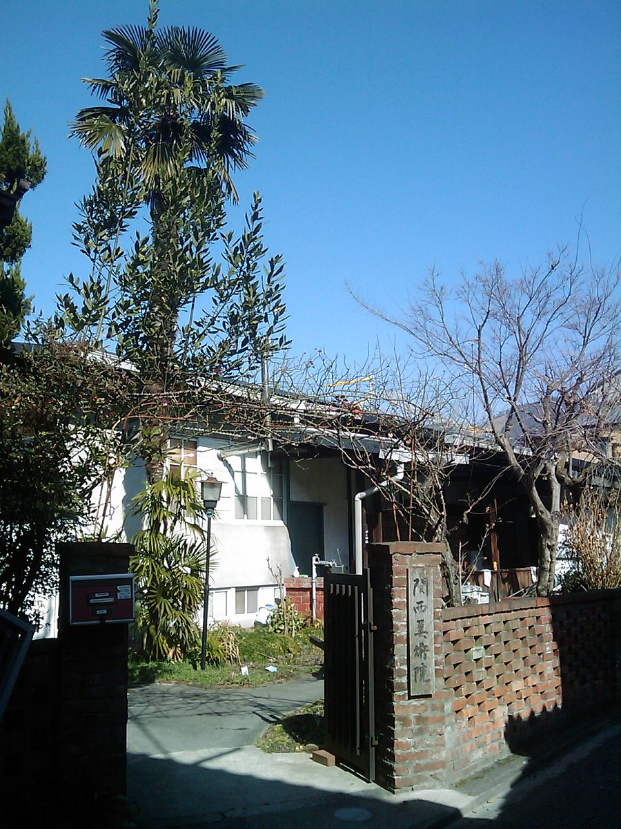 Kansai-Bijutsuin